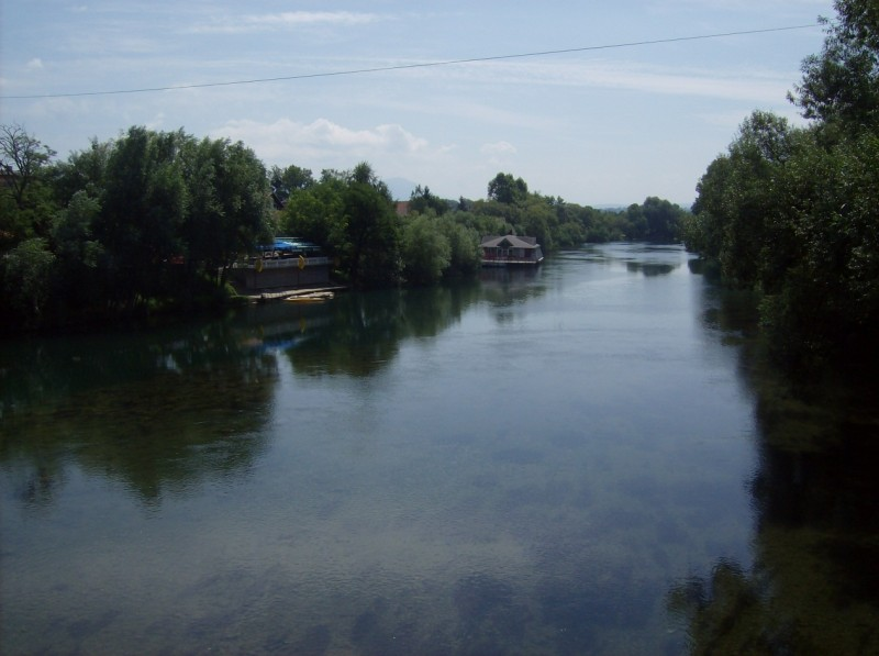 River Sana in Sanski Most, Bosnia and Hercegovina, Europe